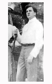 Edwin Joseph O'Malley (1883-1955) circa 1905 in New York City. Source Richard Arthur Norton (1958- ) archive Anne Elizabeth O'Malley (1933- ) collection Atrribution "The Anne Elizabeth O'Malley (1933- ) collection of Richard Arthur Norton (1958- ) archive"